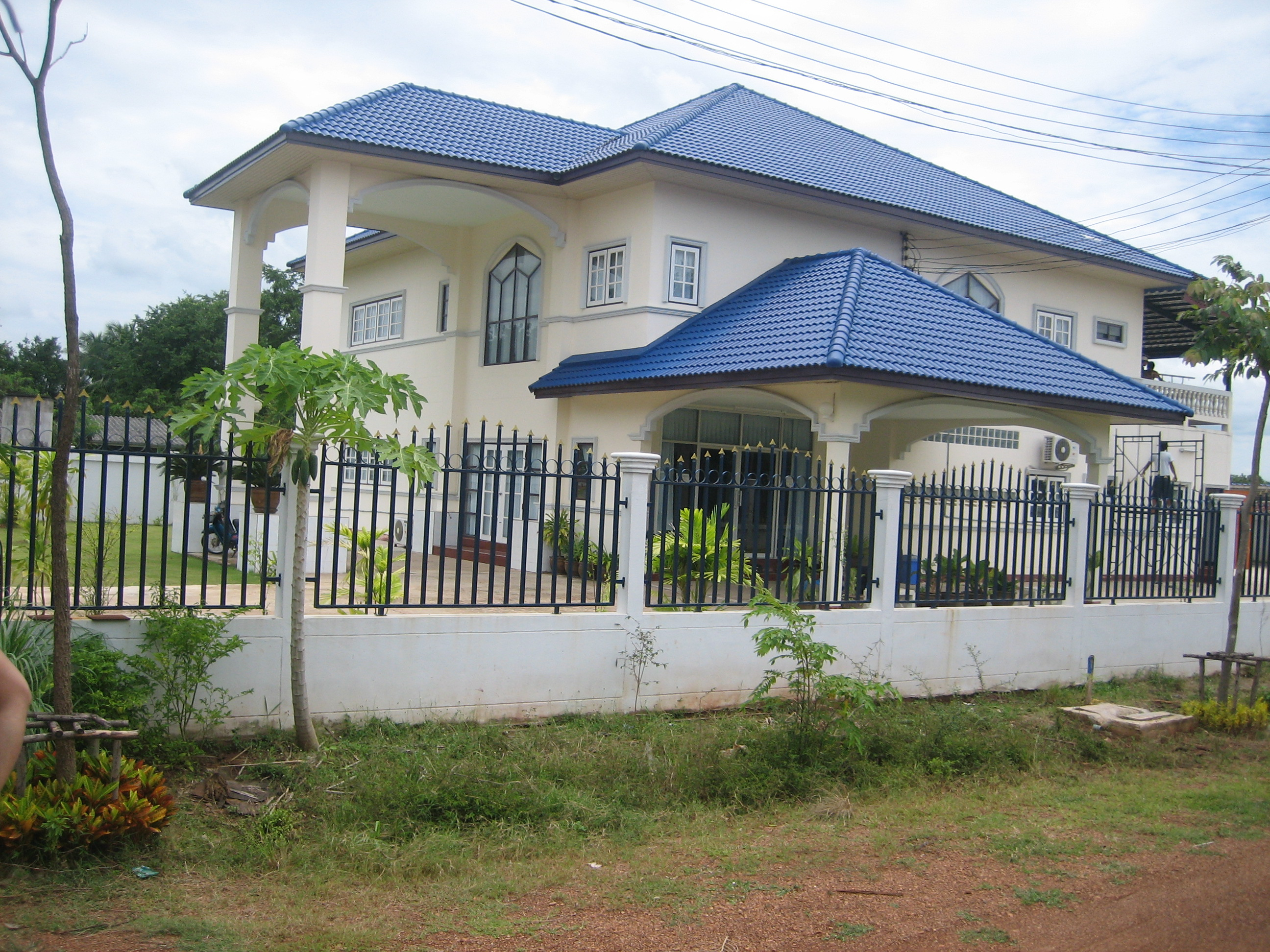 Cambodian Consulate in Aranyaprathet.